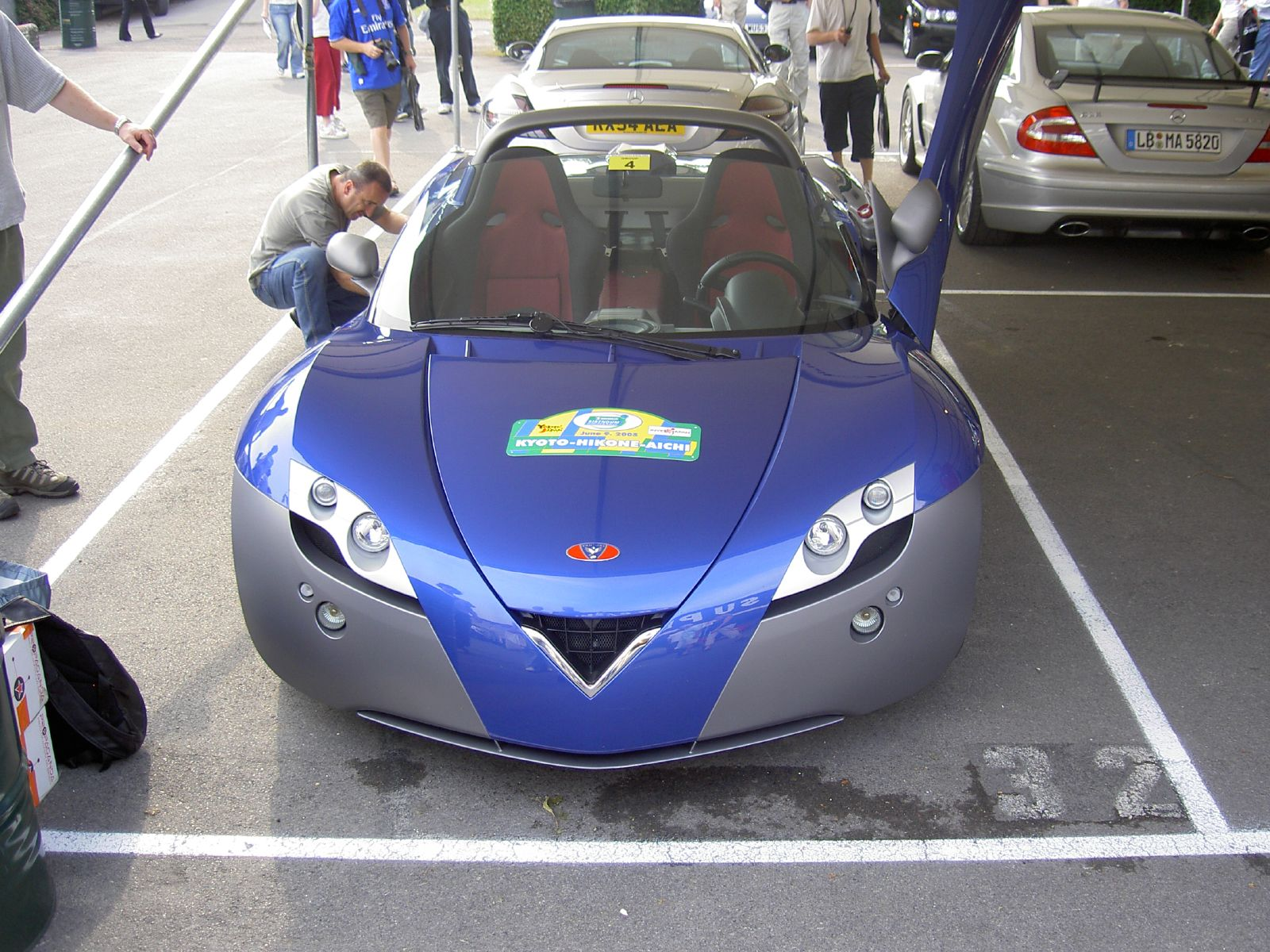 The Venturi Fétish is the world's first production two-seater electric sports car. It is produced by Venturi in Monaco. It will remain an absolute rarity, since the manufacturer is committed to deliver only 25 vehicles worldwide. The car's acceleration is comparable to a normal internal combustion engined sports car, producing approximately 250 horsepower (180 kW), with a 0-100 km/h (0-60 mph) time of "under 5 seconds" according to the 2007 press kit. Its top speed is less comparable however, at 160 km/h (100 mph), which is respectable considering that it only has one gear. It runs at a constant translation of 9.58 : 1, with a torque of 220 Nm. One other particular attraction of the car is that due to the electric traction motor, the full 220 Nm torque is available at all motor speeds including from a dead stop, as opposed to the progressive delivery of an internal combustion engined car, where full power is only available within certain RPM ranges. The company specifies the car with a range of 250 km (combined use). The batteries are all lithium ion accumulators, offering a complete recharge in 1 hour (under 30 kW three-phase) and in 3 hours with a standard grid thanks to its onboard charger.